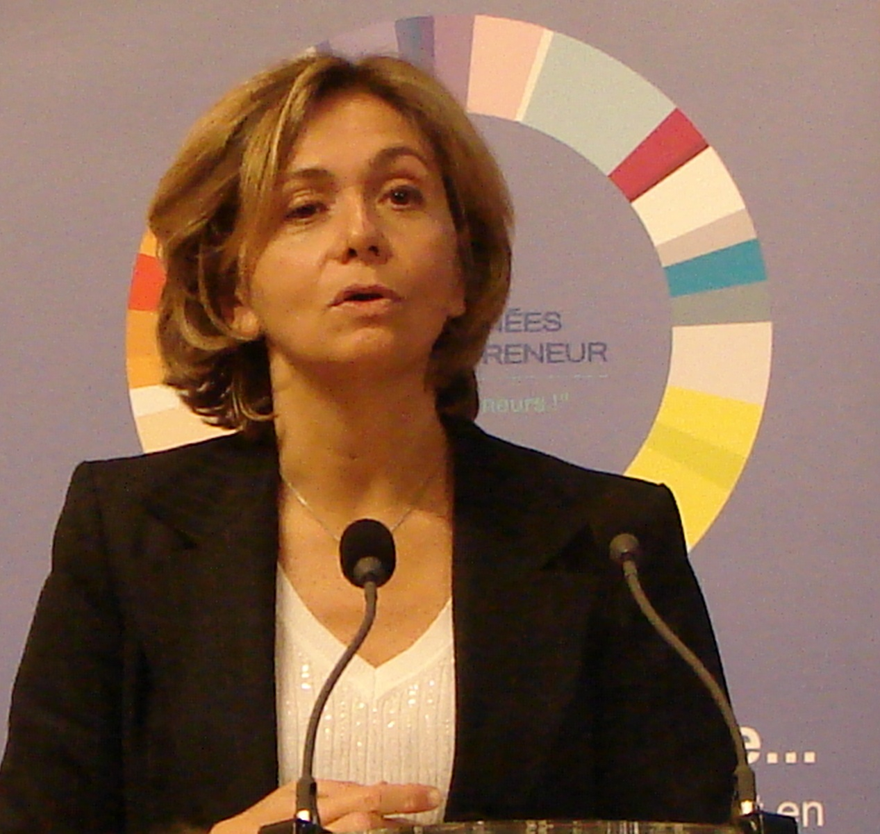 Valérie Pécresse at Minister of the Economy, Industry and Employment (France)